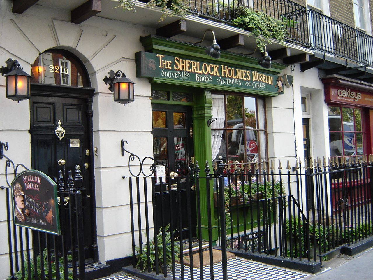 Photo showing the address as 221B beside the location of the Sherlock Holmes Museum in London England